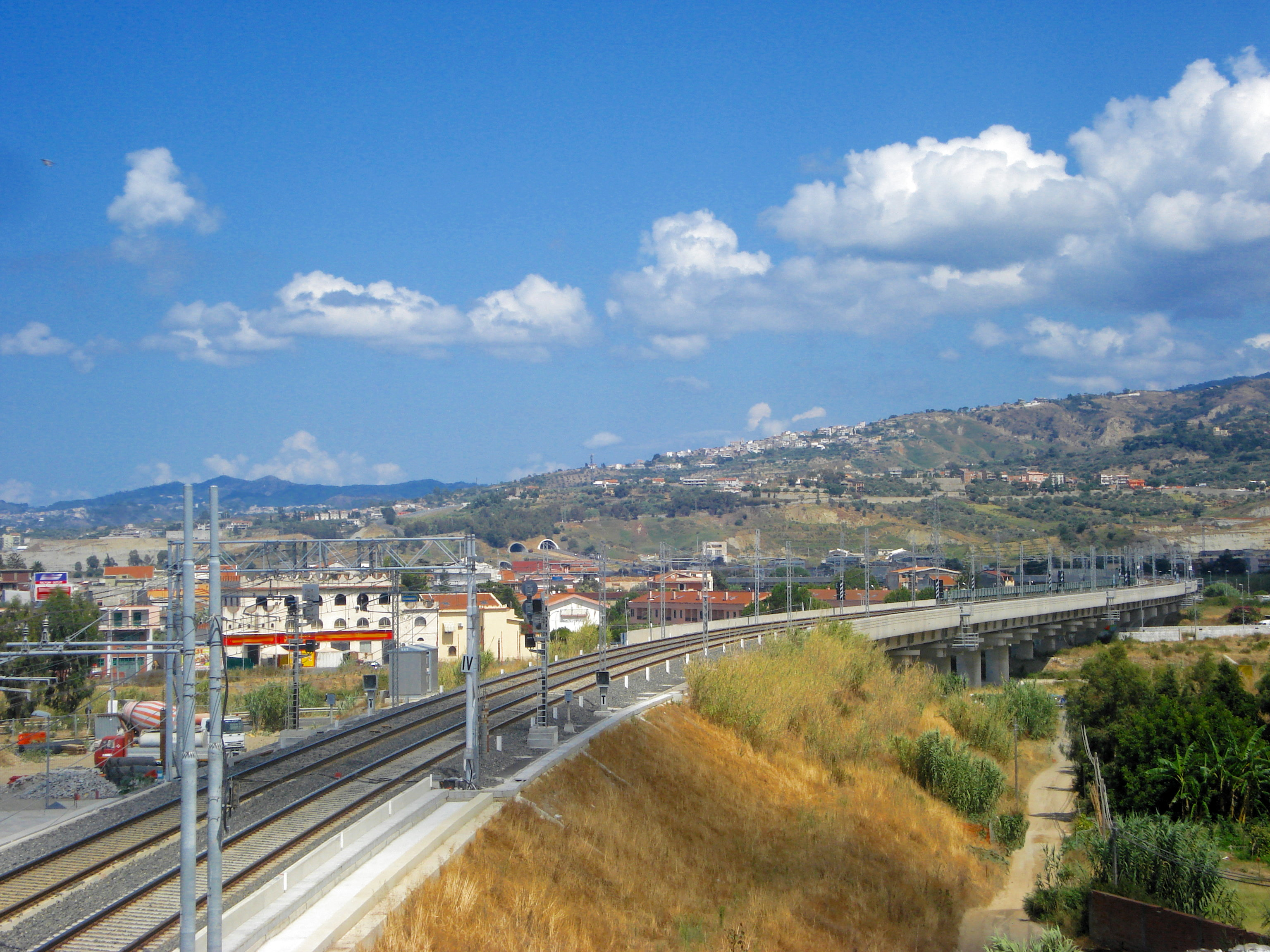 The Palermo-Messina railway line in the Niceto valley, between the stations of Pace del Mela and Torregrotta.